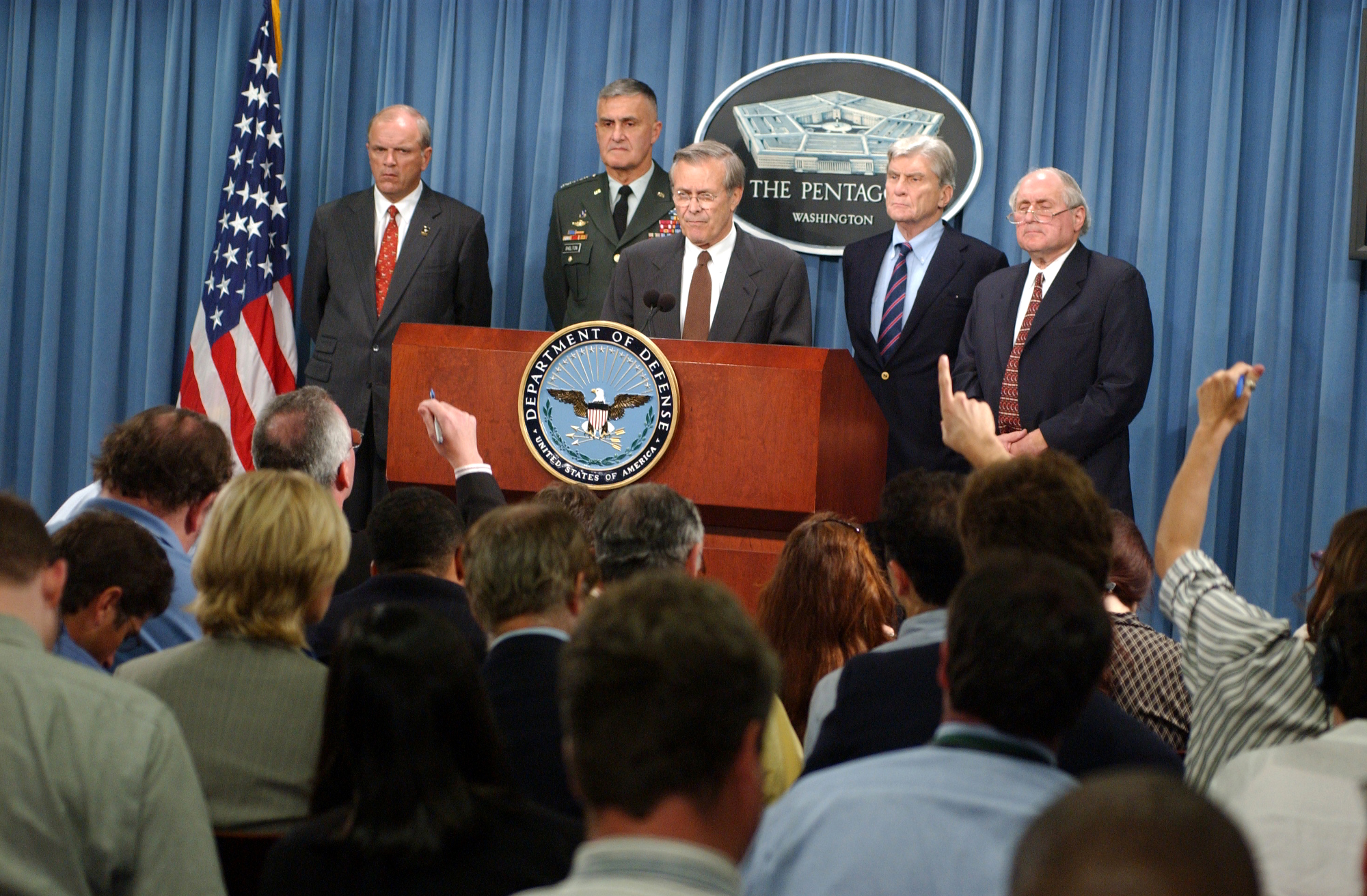 010911-N-3783H-044 Pentagon, Arlington, Va. (Sept. 11, 2001) – "The Pentagon is functioning" was the message Defense Secretary Donald Rumsfeld, center, stressed during a press conference in the Pentagon briefing room barely eight hours after terrorists crashed a hijacked commercial jetliner into the national military headquarters. Rumsfeld is flanked, left to right, by Secretary of the Army Tom White, Chairman of the Joint Chiefs of Staff Army General Henry Shelton, and Senators John Warner, of Virginia, and Carl Levin, of Michigan. U.S. Navy Photo by Photographer’s Mate 2nd Class Bob Houlihan (Released)